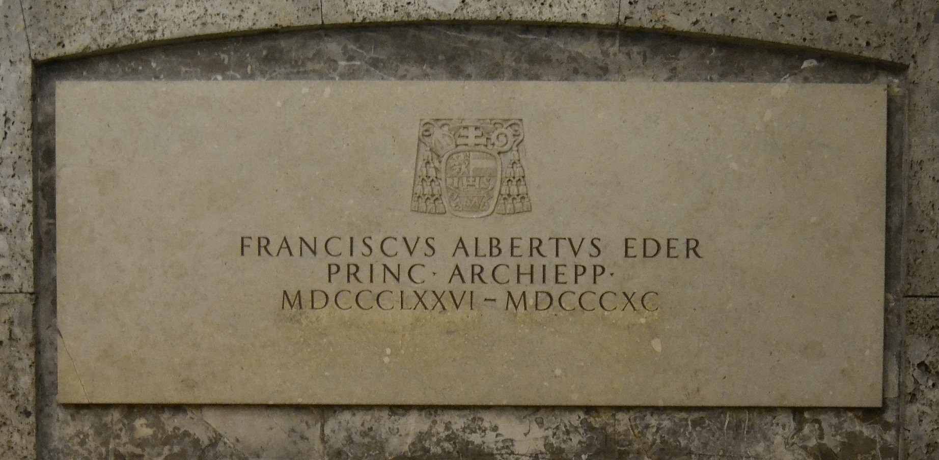 Salzburg Cathedral crypt, room 5: tomb of Archbishop Franz Albert Eder